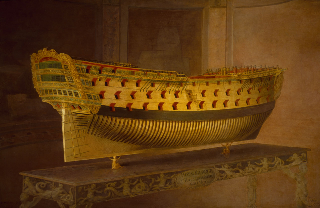 Painting of an fictional model of the Royal George